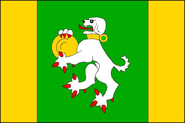 Flag of the village Slopná